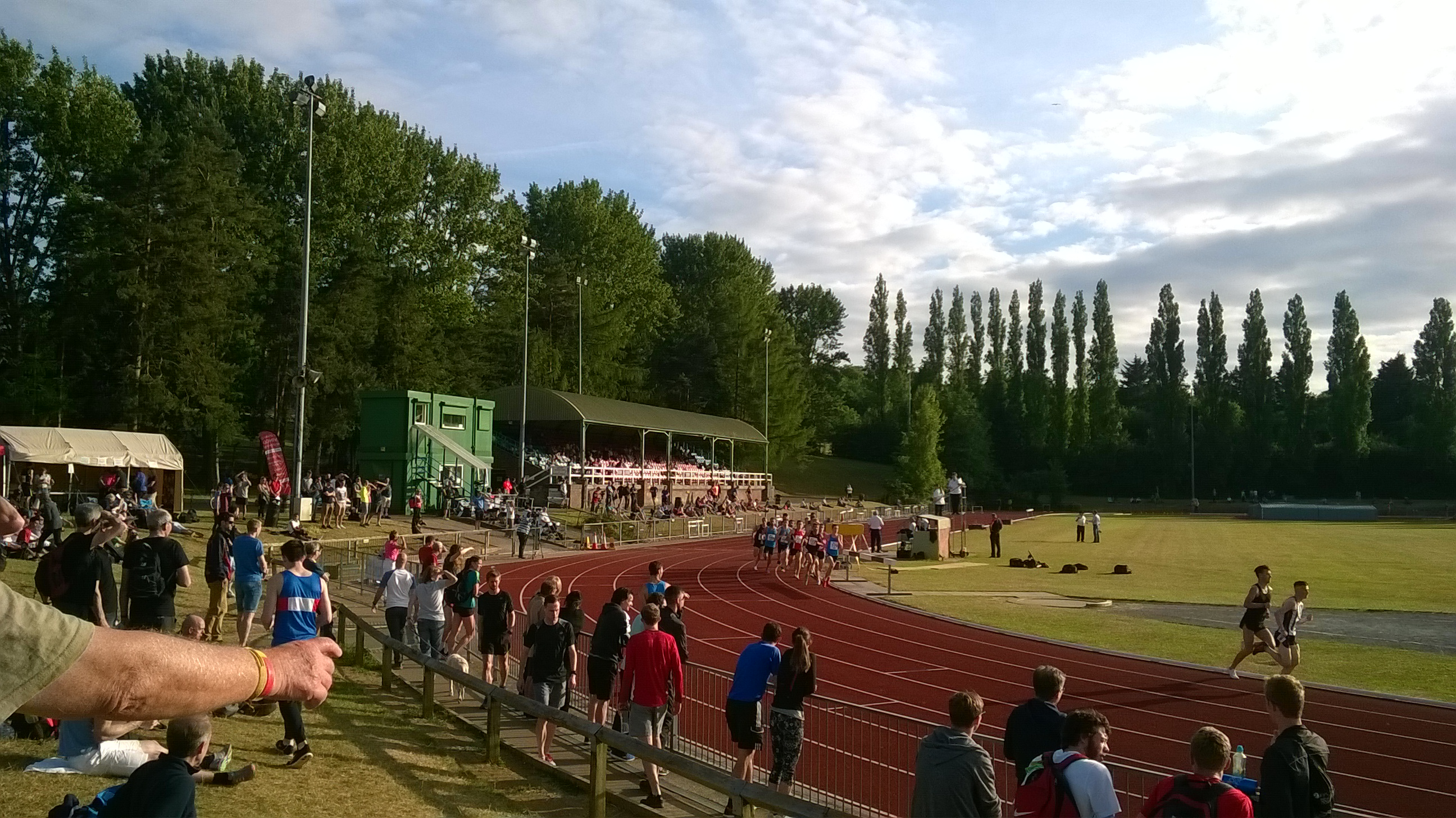 Woodside Athletics Stadium, Watford, Hertfordshire, UK.